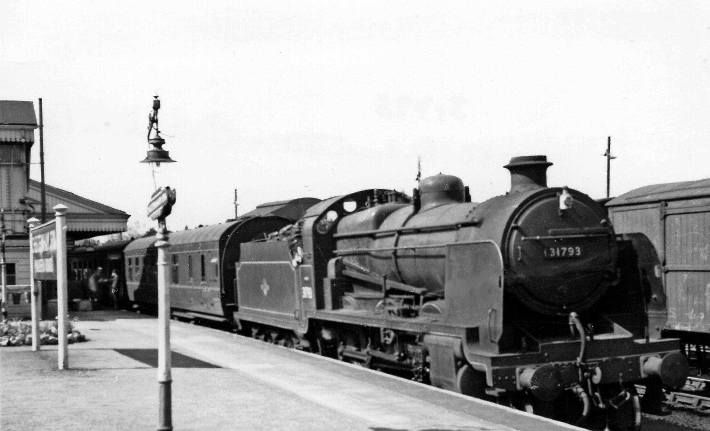 Train from Andover Junction at Cheltenham (Malvern Road). View SW, towards Gloucester, also Swindon, Marlborough and Andover: ex-GW Gloucester etc. - Stratford-on-Avon - Birmingham line. Even after Nationalisation the former Midland & South Western Junction Railway trains terminated at the ex-Midland Lansdown station at Cheltenham. Only in the last few years before they ended from 11/9/61 were they diverted to St James' station and - to make matters even more interesting - were worked by the Western Region with SR locomotives. Here, SR Maunsell U class 2-6-0 No. 31793 (built 5/25 as K class 2-6-4T, rebuilt 6/28, withdrawn 5/64) is working the 07.50 from Andover Junction.